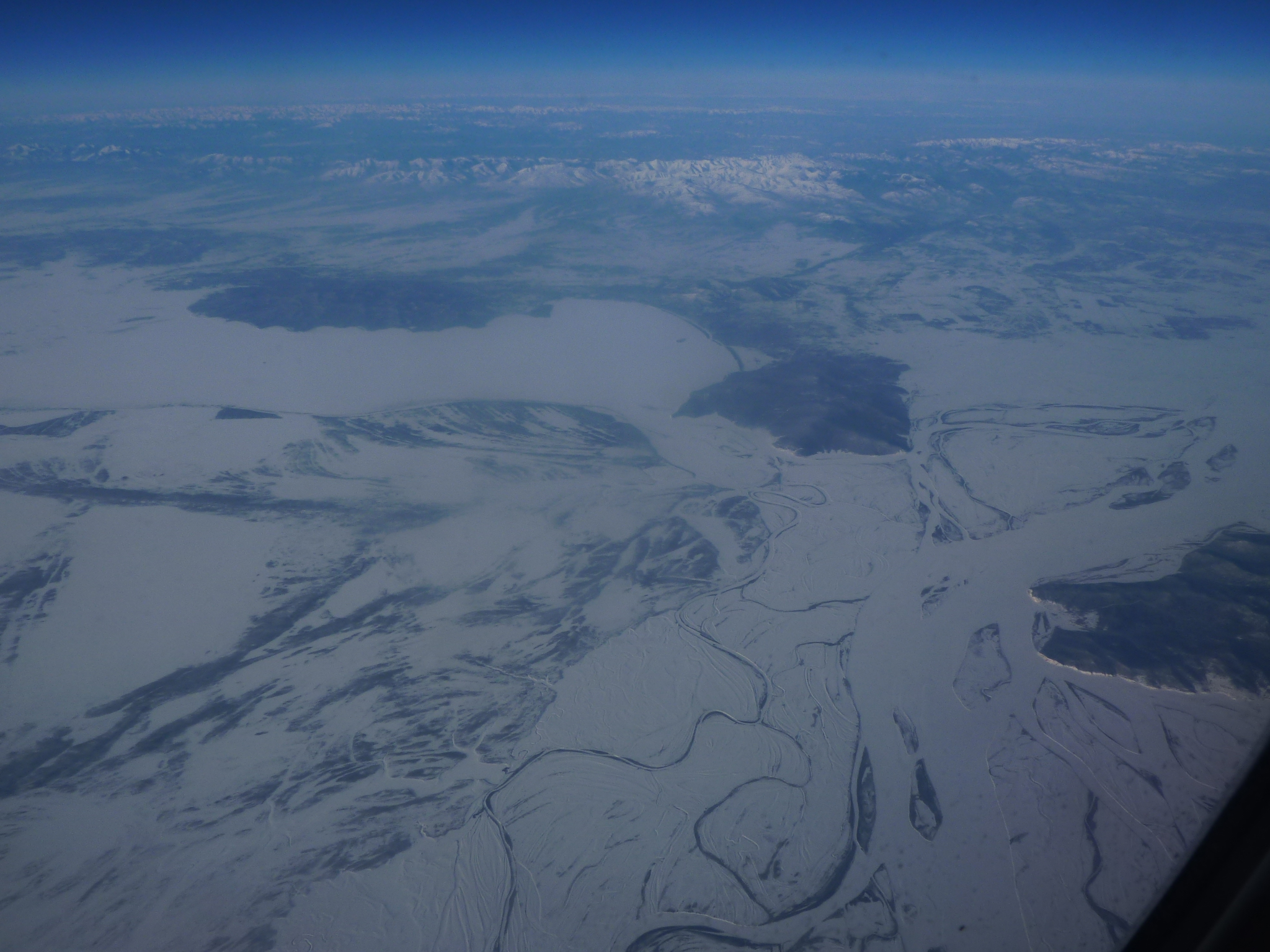 An aerial view of the Amur River and Lake Bolon, looking NW. Photo taken from an AA aircraft on a non-stop ORD-PVG flight